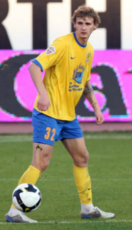 Kiril Pavlyuchek in action for FC Luch-Energiya